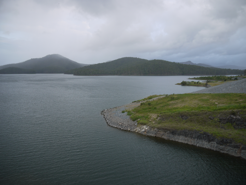 Advancetown Lake at Hinze Dam, following Stage 3 Upgrade (December 2011)